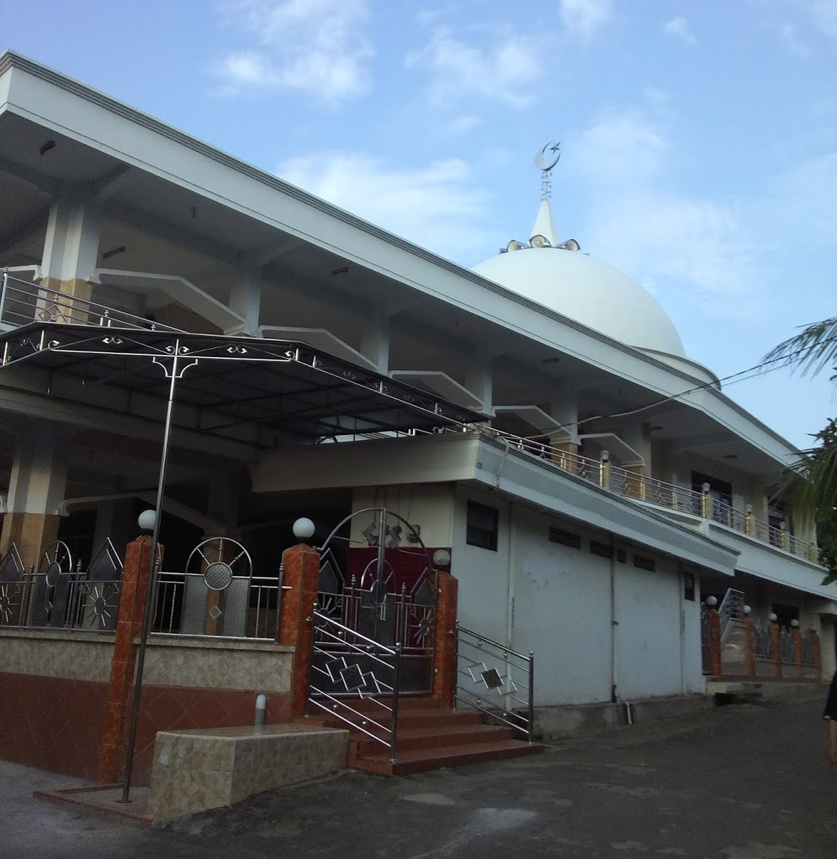 Masjid